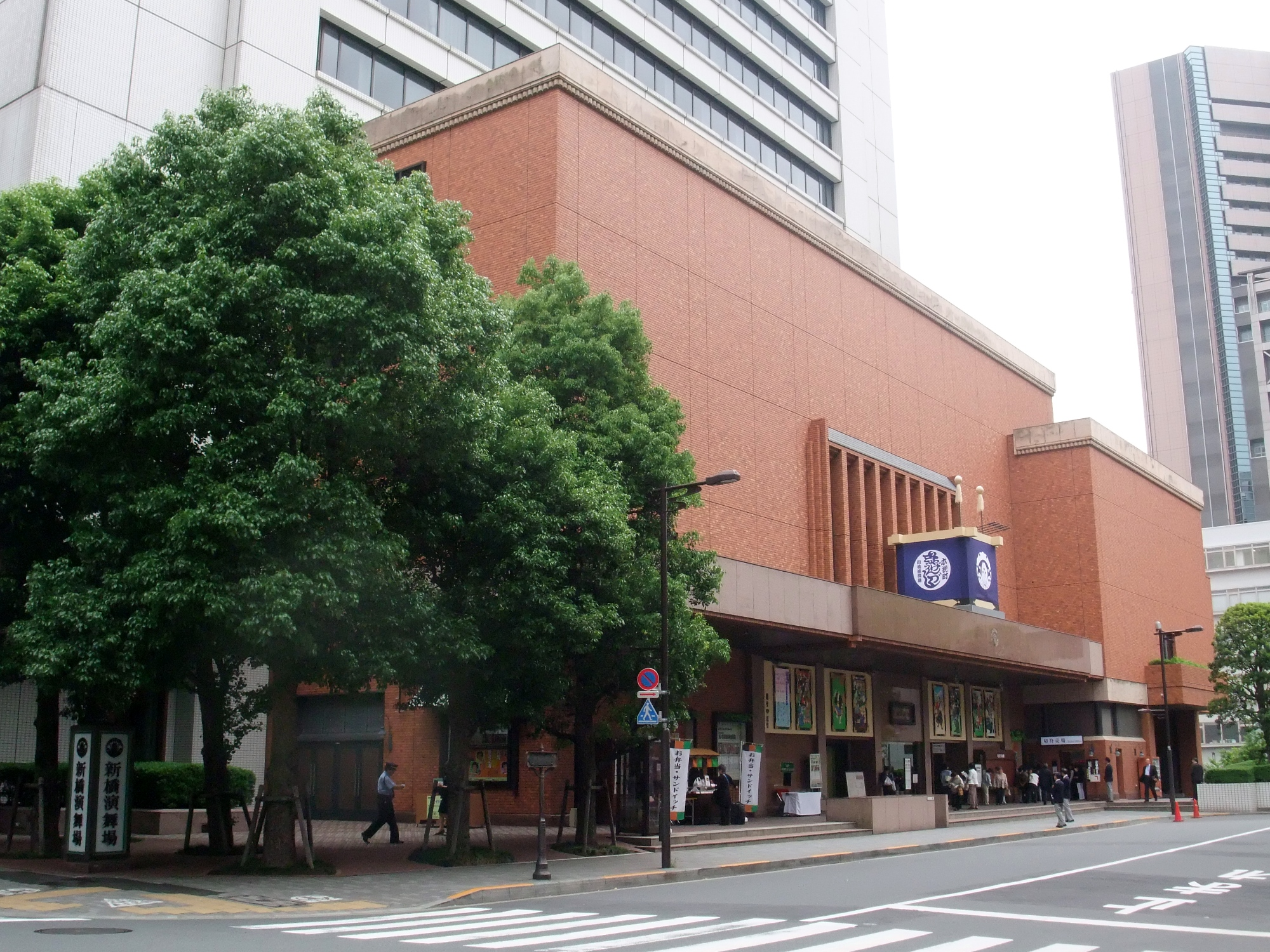 Shinbashi Enbujō theater in Chuo-ku, Tokyo